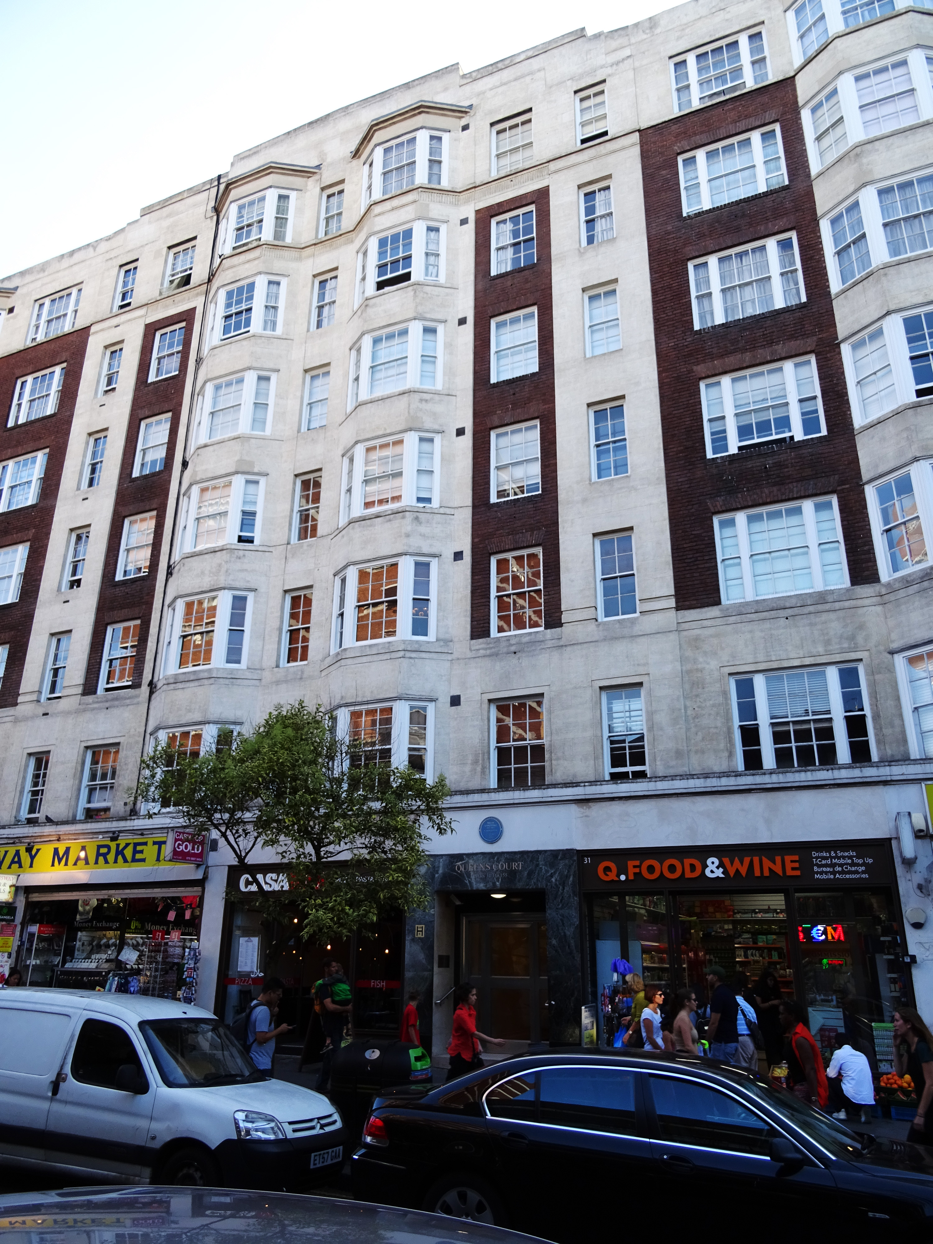 Queens Court, Queensway, Bayswater, London W2 4QW - Miloš Crnjanski 1893–1977 Serbian author lived and wrote here